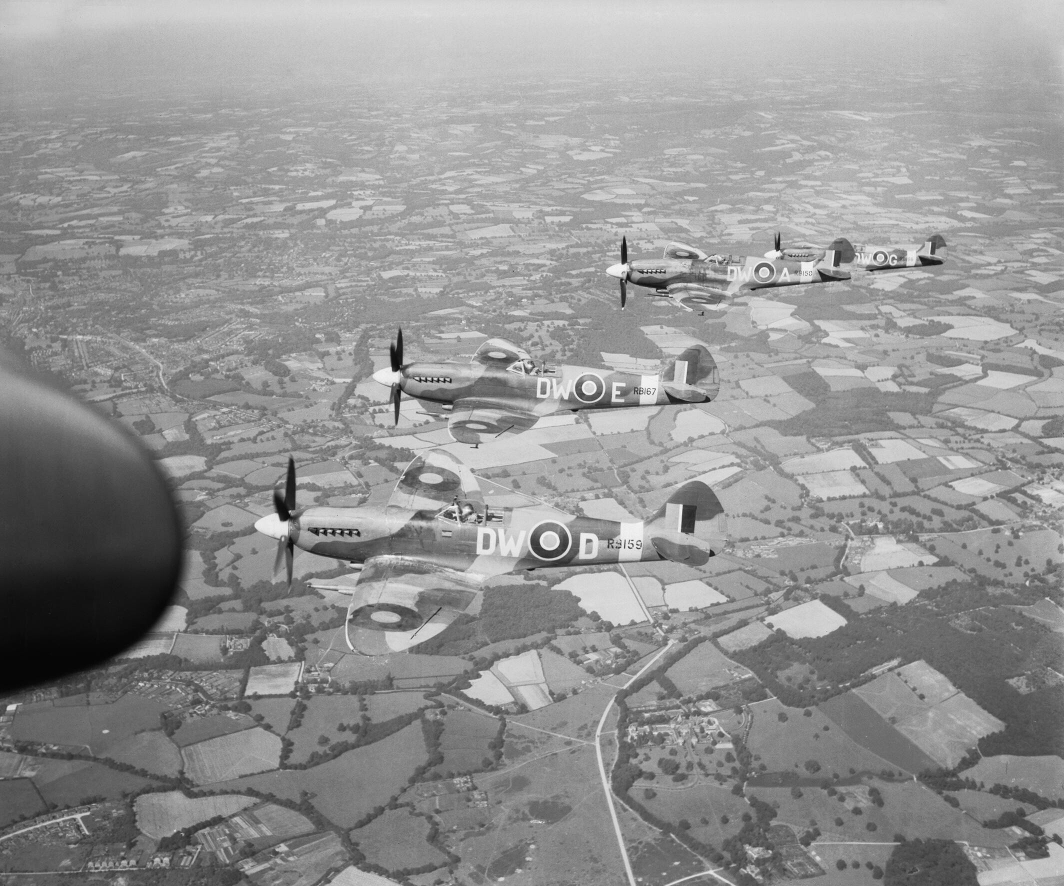 Royal Air Force- Air Defence of Great Britain (adgb), 1943-1944. Four Supermarine Spitfire F Mark XIVs, of No. 610 Squadron RAF based at Friston, Sussex, flying in loose starboard echelon formation over South-east England. RB159 ‘DW-D’, in the foreground is being flown by the unit's commanding officer, Squadron Leader R A Newbury. With him are: RB167 'DW-E', RB150 'DW-A' and RB156 'DW-G'.